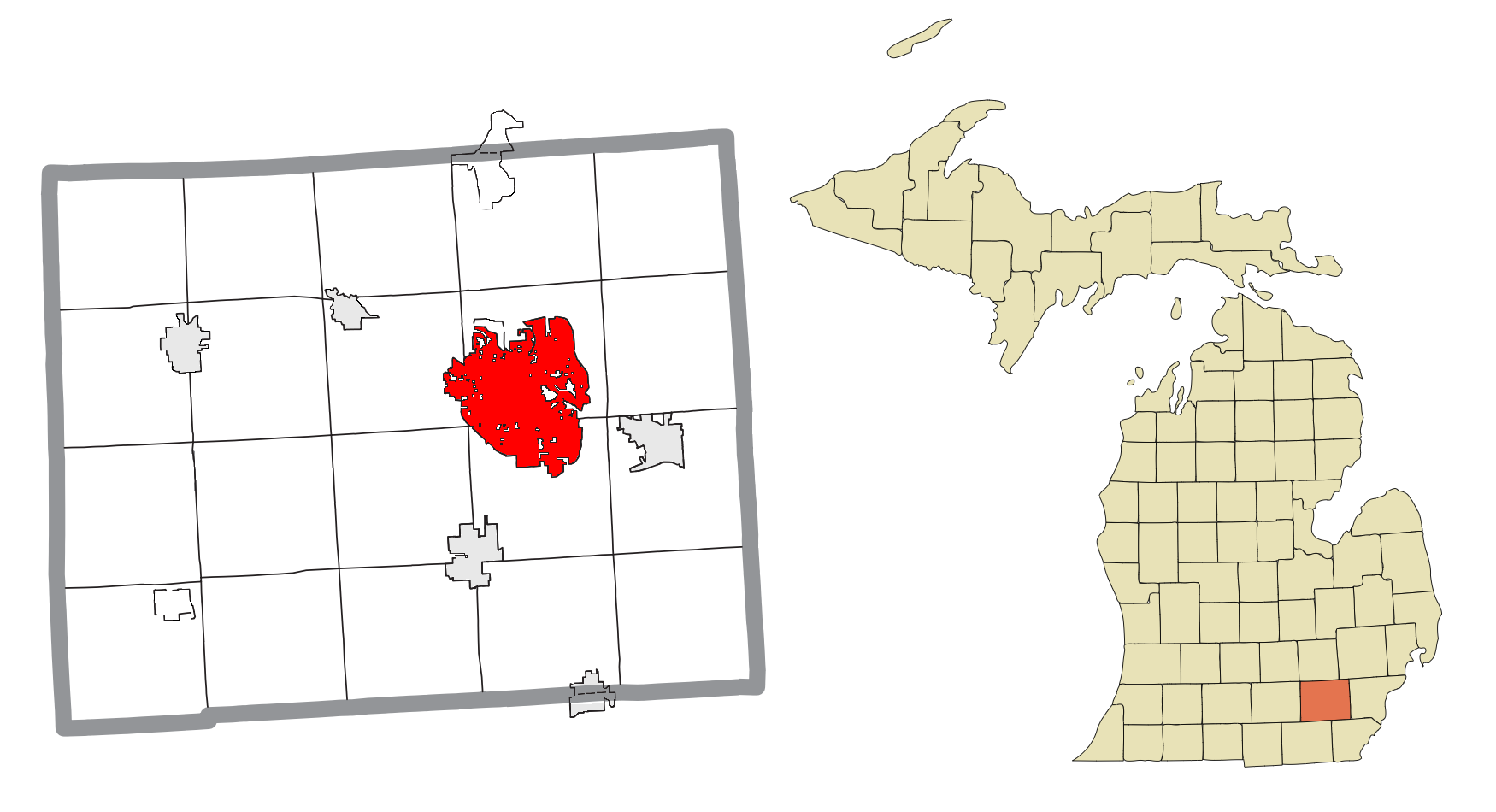 Ann Arbor, MI